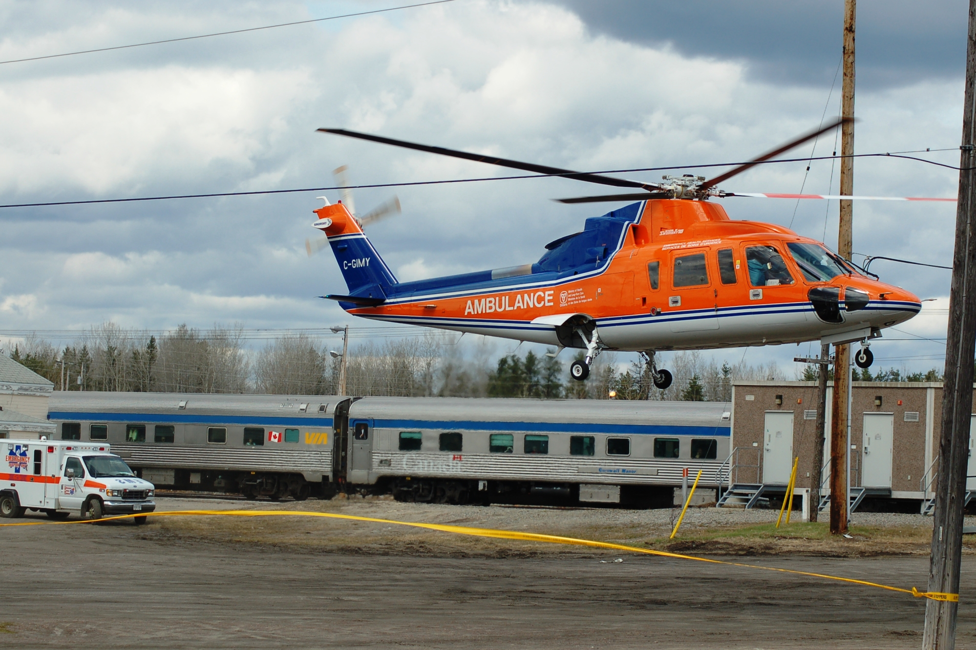 Photo of Ontario Ministry of Health air ambulance helicopter at the scene of the "Foleyet emergency quarantine" that occurred on May 9, 2008 when a passenger aboard the VIA Rail train died. When the train arrived at Foleyet, the cause of death was unknown and a quarantine was ordered by health authorities. The quarantine lasted for roughly ten hours until it was discovered that the unfortunate passenger had died of natural causes. Photo taken in the CN Rail yard at Foleyet, ON, Canada.